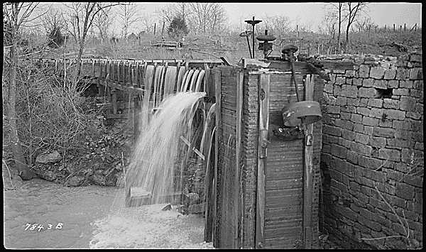 An abandoned mill in Morganton, Tennessee, USA, photographed by the Tennessee Valley Authority as part of the Fort Loudoun Dam project in 1939. This mill was located near the modern junction of East Tellico Parkway and Morganton Road. Morganton was submerged by the waters of Tellico Lake in 1979. Originally titled "Abandoned mill near Baker Creek Bridge, 1939." ARC identifier 280846.